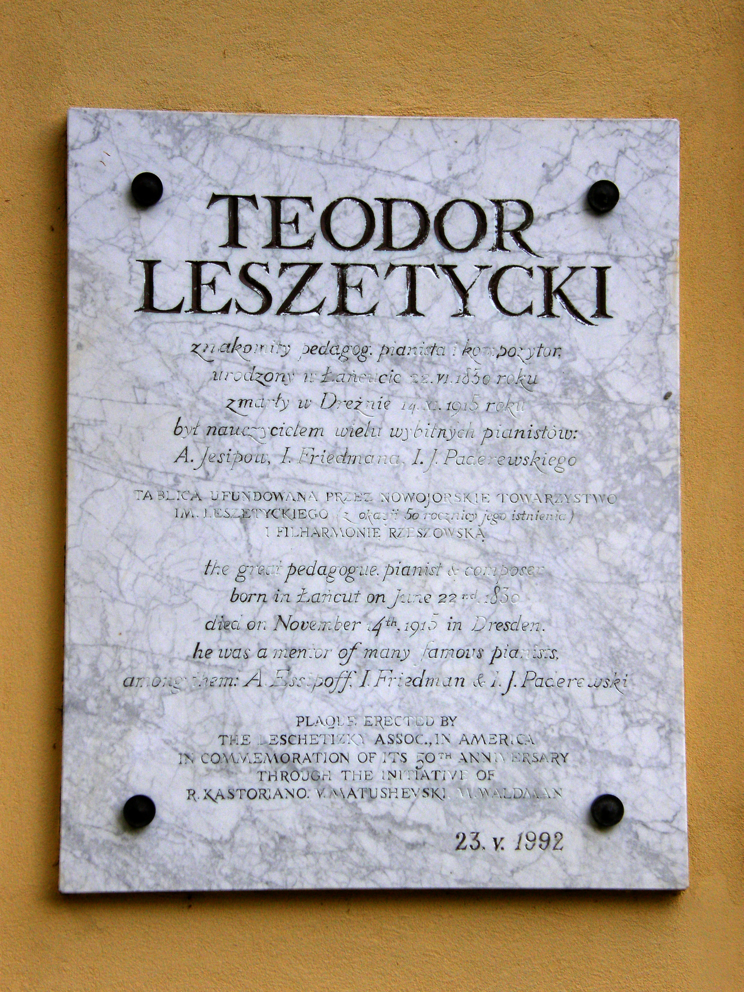 Tablet in memory of music school's patron, Teodor Leszetycki.